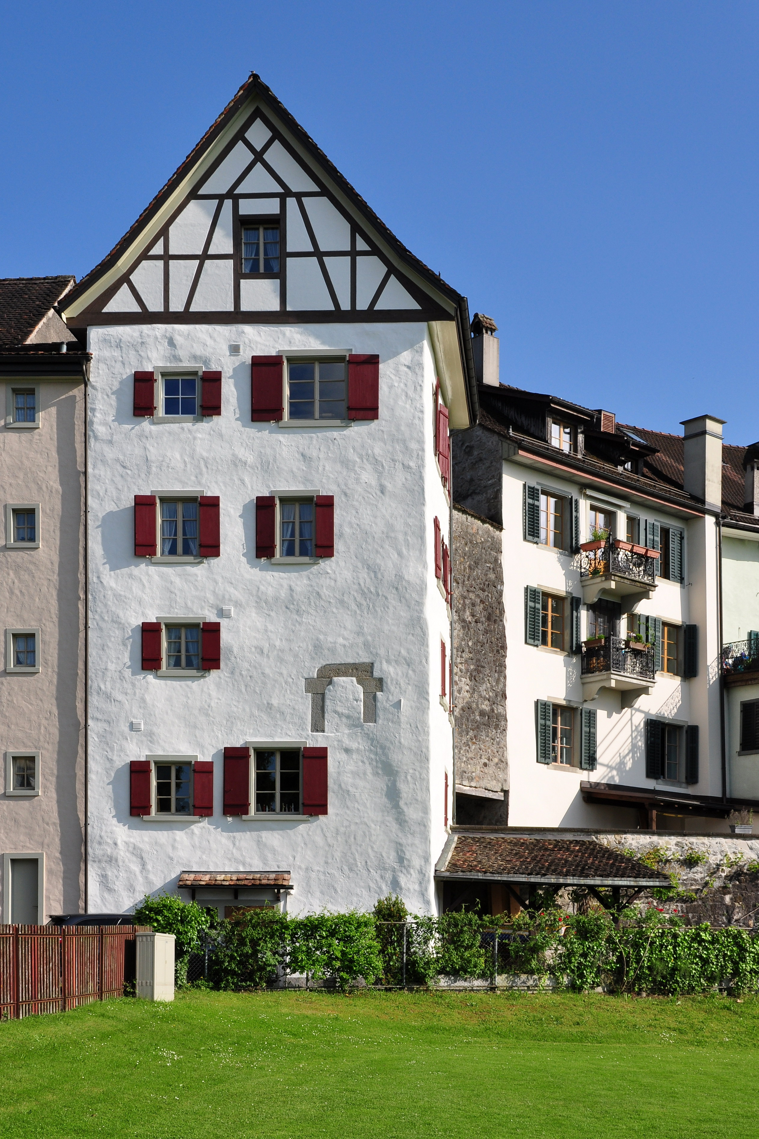 Rapperswil (Switzerland) : Müseggturm and northwesternly town walls as seen nearby from Giessi.